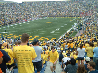 By Mohd Hafiz Noor Shams, from or 04:11, 8 October 2005 . . Earth . . 400×300 (76,120 bytes)